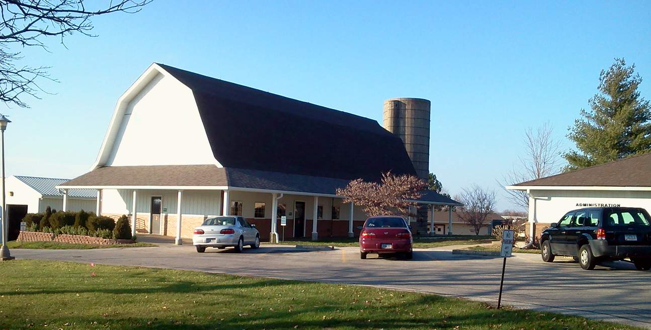 "The Barn" at Indian Hills Community College - Centerville campus, Centerville, Iowa. The building has been repurposed into a snack bar and study area for students.